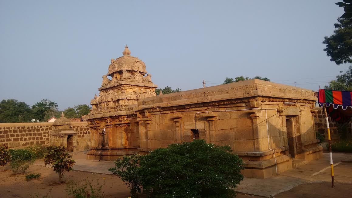 Thirukattalaisundaresvarartemple திருக்கட்டளை சுந்தரேஸ்வரர் கோயில்